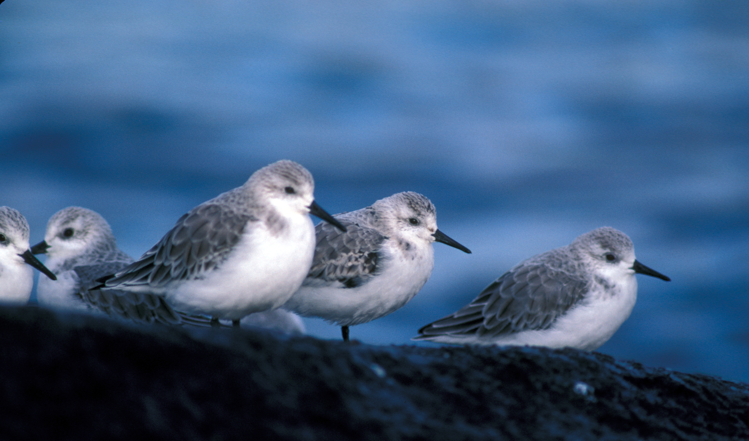 Sanderlings (Calidris alba), Adak Island, non-breeding plumage [1]